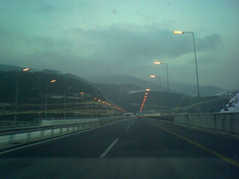 Motorway A2 (Egnatia Odos) in Greece.